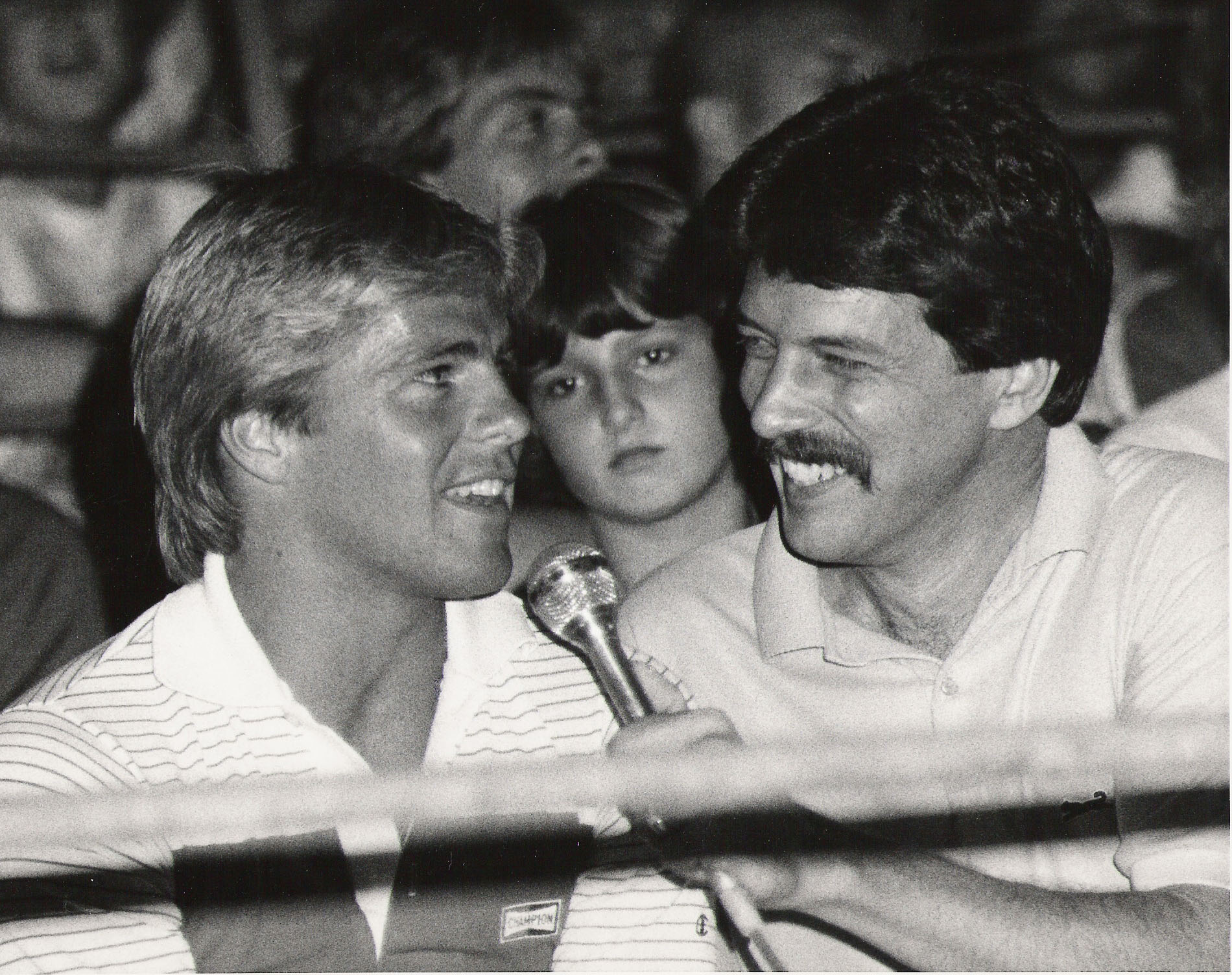 A 1981 interview between Bruce Penhall and Bruce Flanders at Costa Mesa Speedway in Costa Mesa, CA.